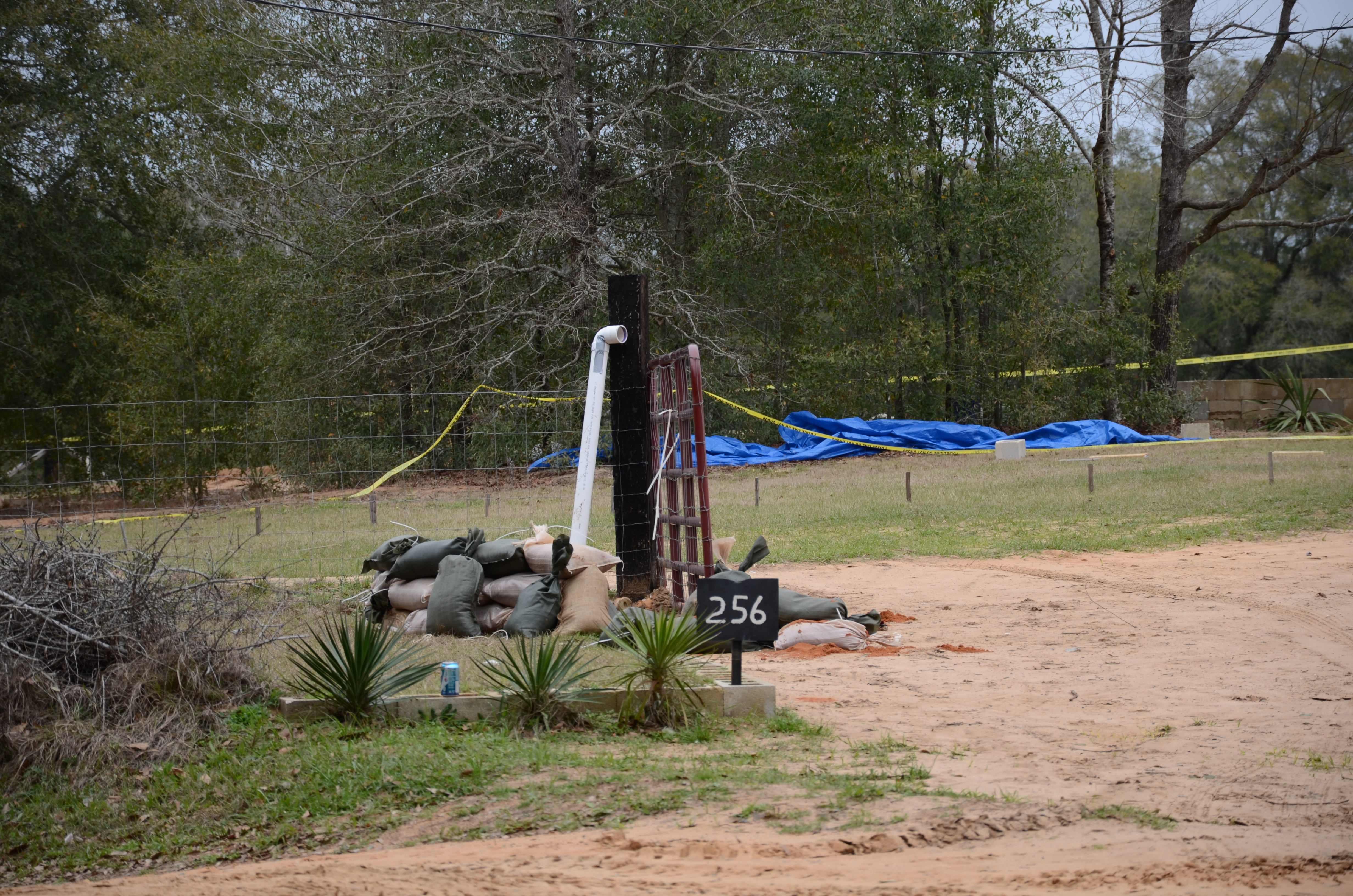 Photo of the pipe in/near Midland City, which was used by the kidnapper and the authorities to communicate to each other and to bring things into the bunker